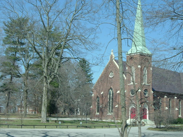 Church of KY 146